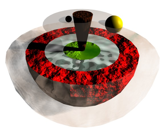 3D-picture of the Tibetan view of the world-structure